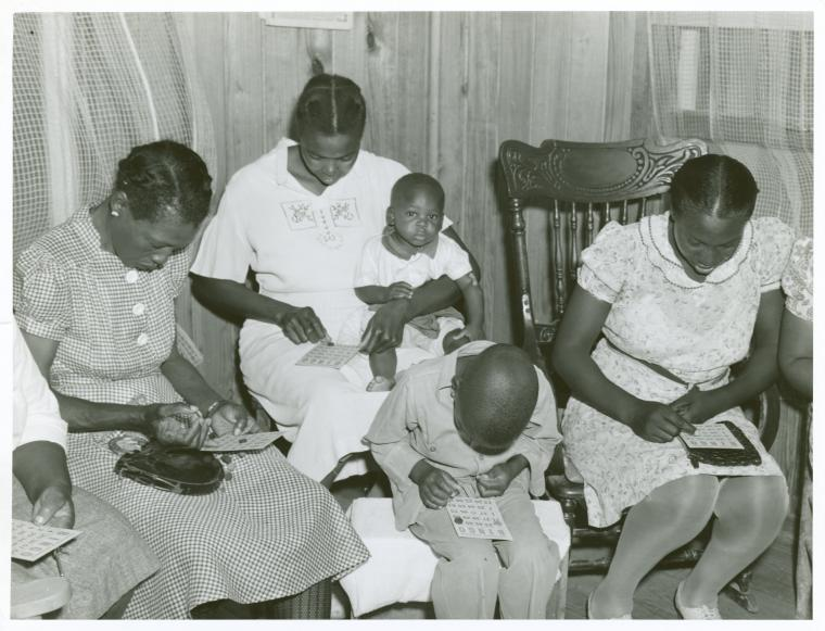 Digital ID: 1260195. Home demonstration club meeting has games and refreshments after discussion; La Delta Project, Thomastown, Louisiana.. Wolcott, Marion Post -- Photographer. 1940 Notes: Original negative # : 53795-D Source: Farm Security Administration Collection. / Louisiana. / Marion Post Wolcott. (more info) Repository: The New York Public Library. Schomburg Center for Research in Black Culture. Photographs and Prints Division. See more information about this image and others at NYPL Digital Gallery. Persistent URL: Rights Info: No known copyright restrictions; may be subject to third party rights (for more information, click here)